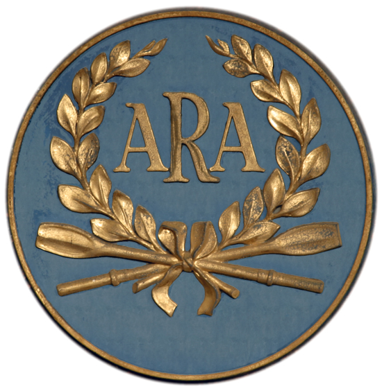 Plaque on the wall of the Amateur Rowing Association offices at Lower Mall London W6.